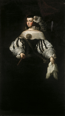 Portrait of Feliche de la Cerda y Aragón (1657-1709), daughter of the 8th duke of Medinaceli and marchioness of Priego by marriage. As his brother, didn´t have any children, her son Nicolas inherited, apart from his father's titles, the duchy of Medinaceli.